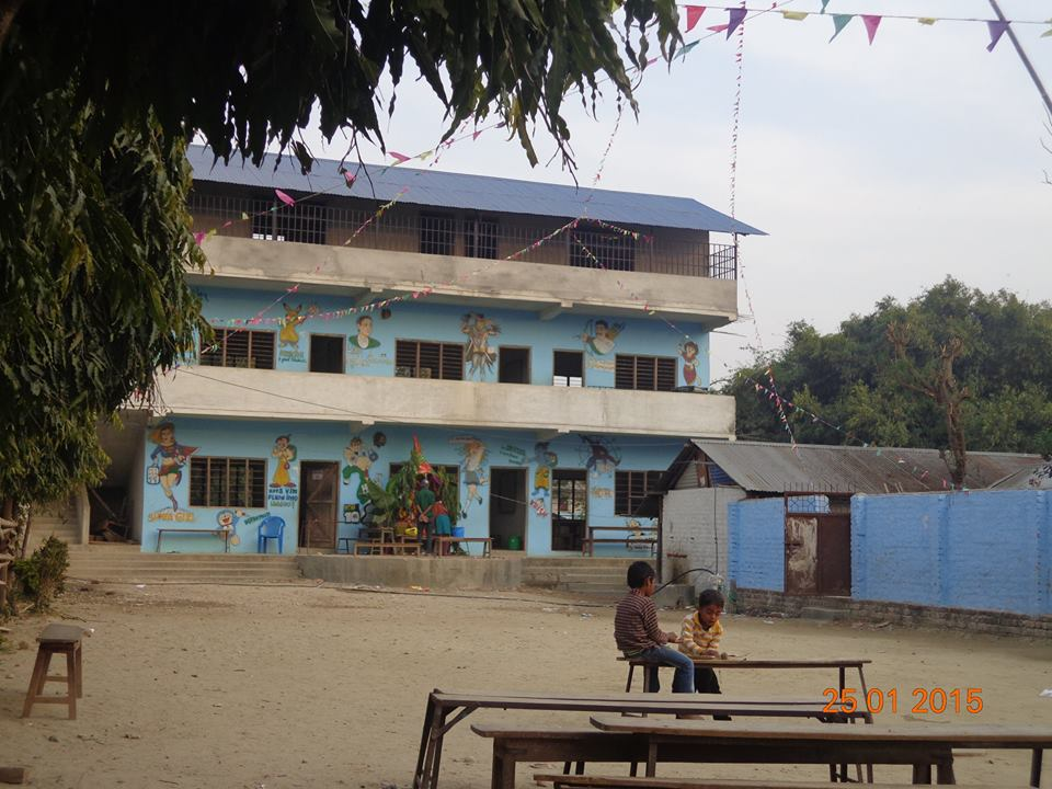 ASES building